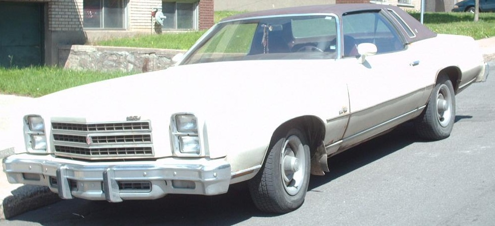 1976 Chevrolet Monte Carlo photographed in Montreal, Quebec, Canada.